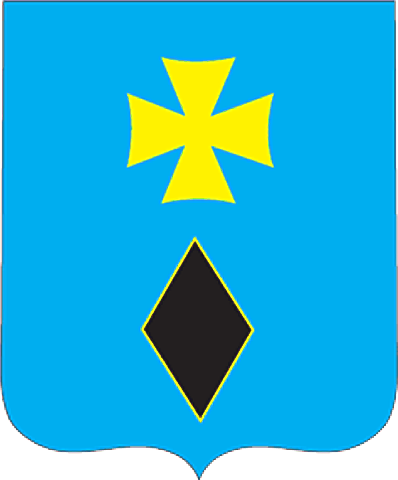 Pogar (Bryansk oblast), coat of arms